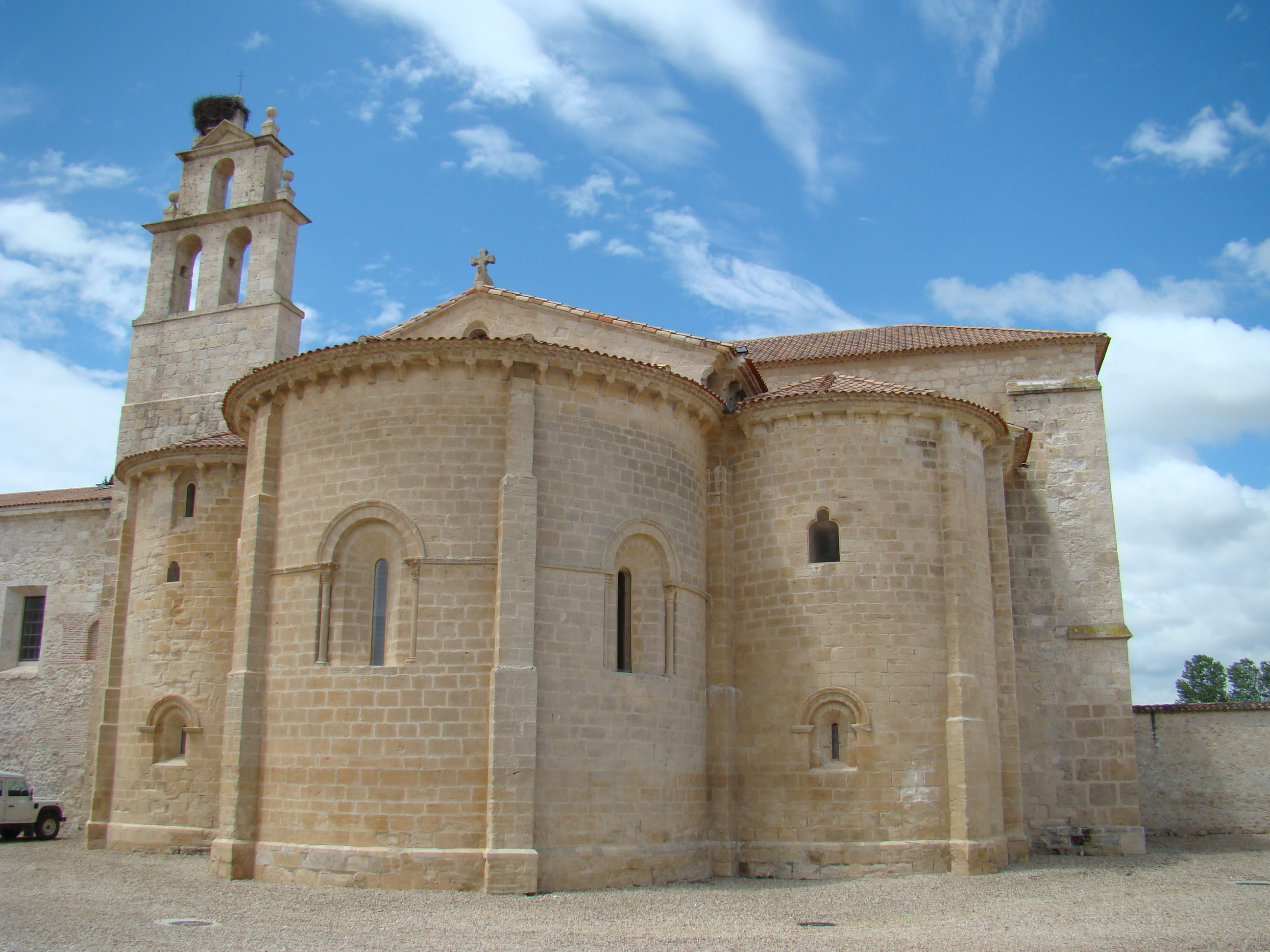 Santa María de Retuerta monastery is located on the left bank of the Douro river, near the town of Sardón de Duero, in the province of Valladolid. It is a monastery which belongs to the premonstratensian order, built in late romanic style and founded by Sancho Ansúrez, count Ansúrez's grandson. Nowadays it is owned by Novartis enterprise.